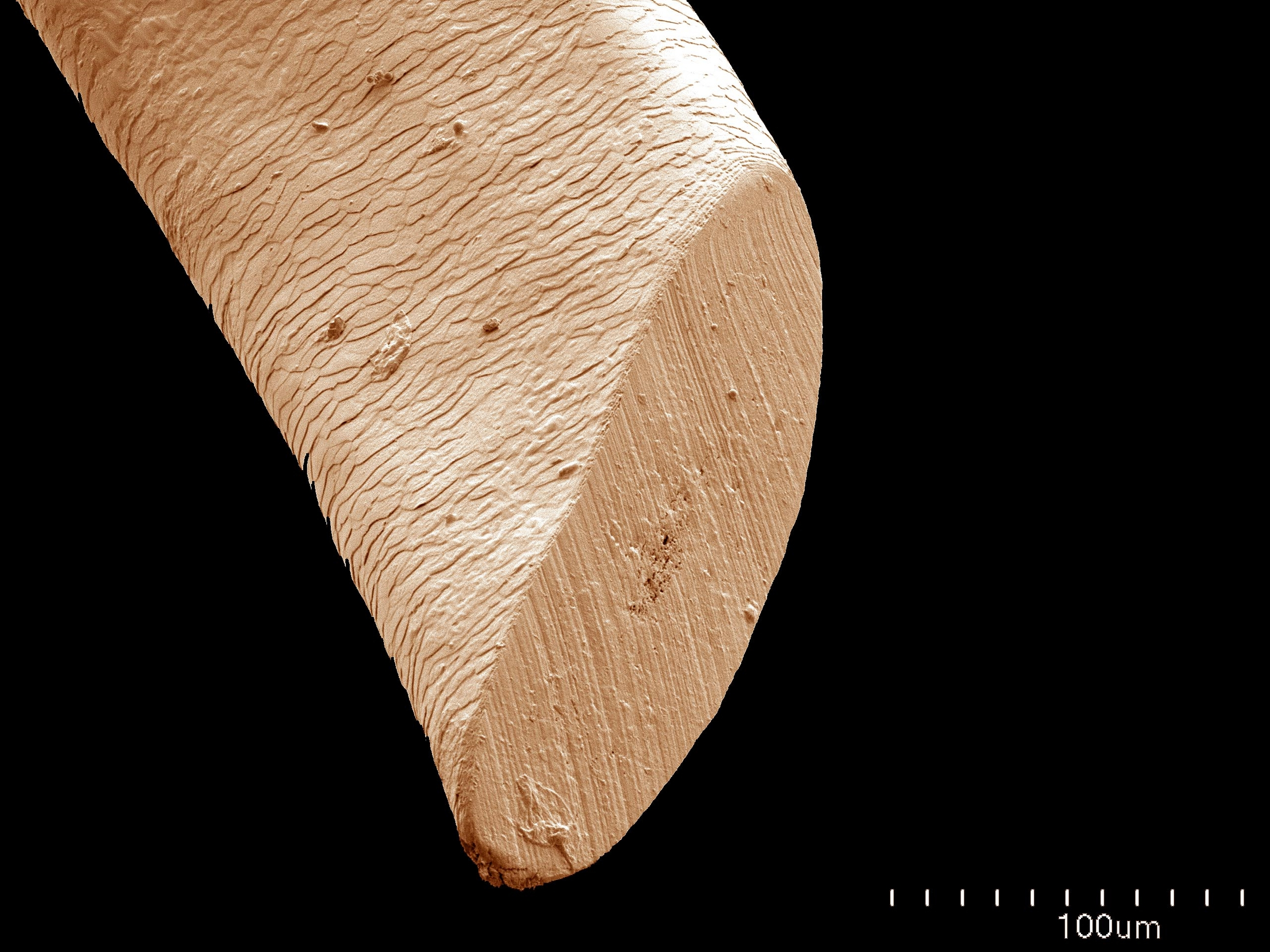 Title: human hair after shave The image shows a cross-sectional view of a human hair with high magnification. In the interior of the hair is the central medulla, outside the cortex is shown. The whole structure is made up of a protein called keratin. The photograph was taken by the scanning electron microscope Hitachi S-4700 with 70 times magnification and has been colored in Adobe Photoshop